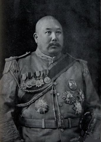 Qing dynasty,and later Republic of China Chinese muslim General Ma Fuxiang. Was a member of the Kuomintang. Born in 1876, died in 1932.